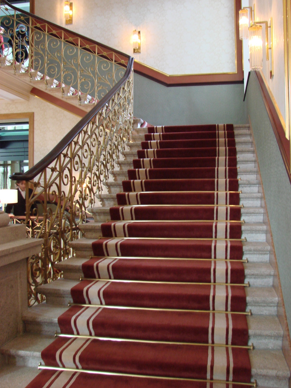 Dolder Grand Hotel - Stairs in entrance hall